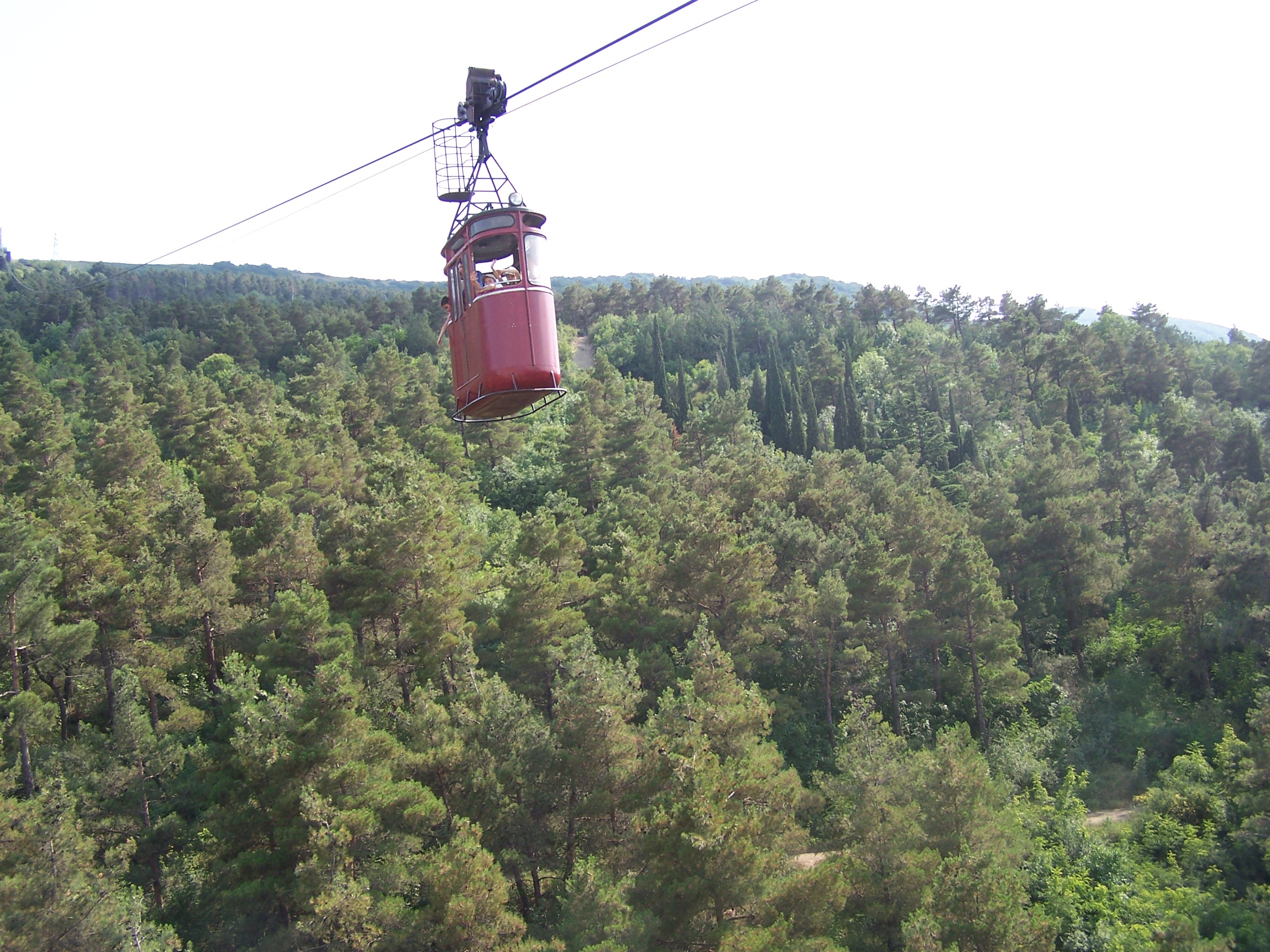 Tramway over Kus Tba. Tbilisi